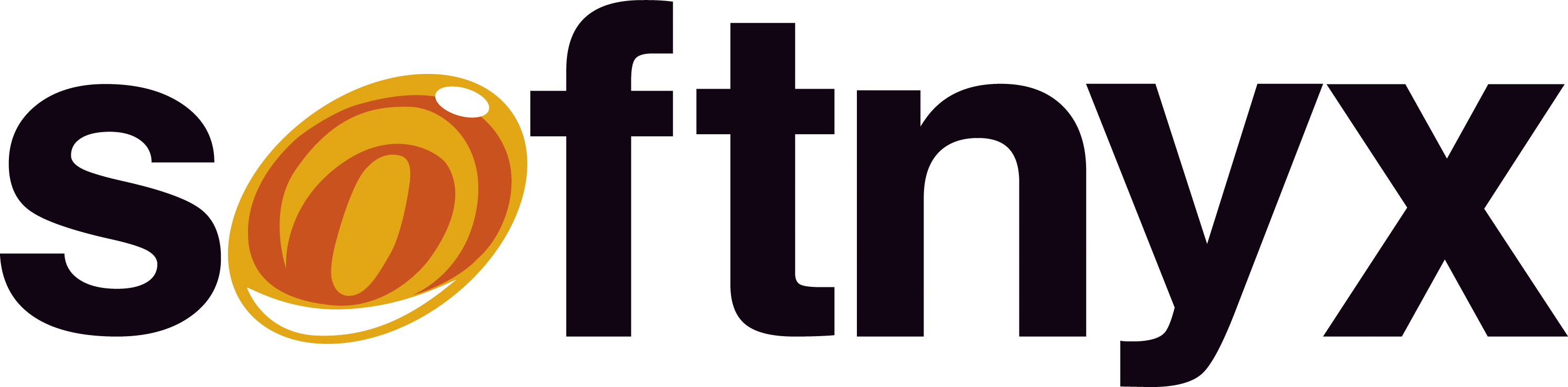 Softnyx Logo